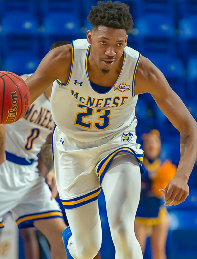 McNeese State's Sha'markus Kennedy in February 2020 February 8, 2020 - Lake Charles, Louisiana, USA - McNeese Cowboys vs Central Arkansas Basketball Game 2020 at H&HP Complex in Lake Charles, Louisiana. Richard J Martin DDS